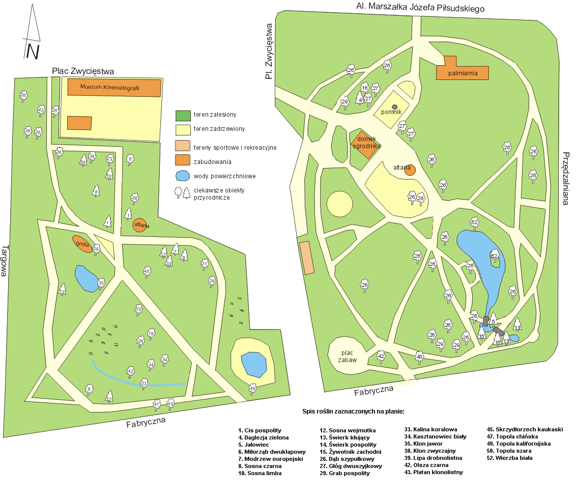 Mapa parku Źródliska Łódź permissed by Krzysztof Wychowalek to use it as long as the source is given.